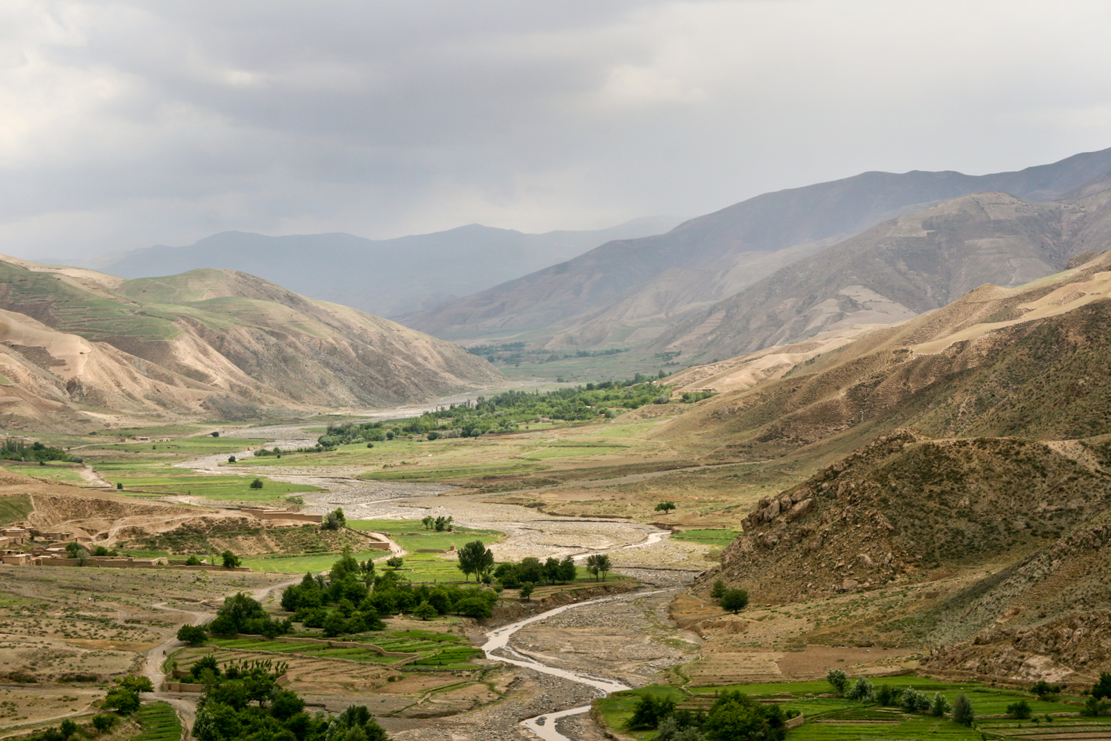 This photo shows a little part of Kunduz with nice Color contrasts. Photo by Dirk Haas of Germany.